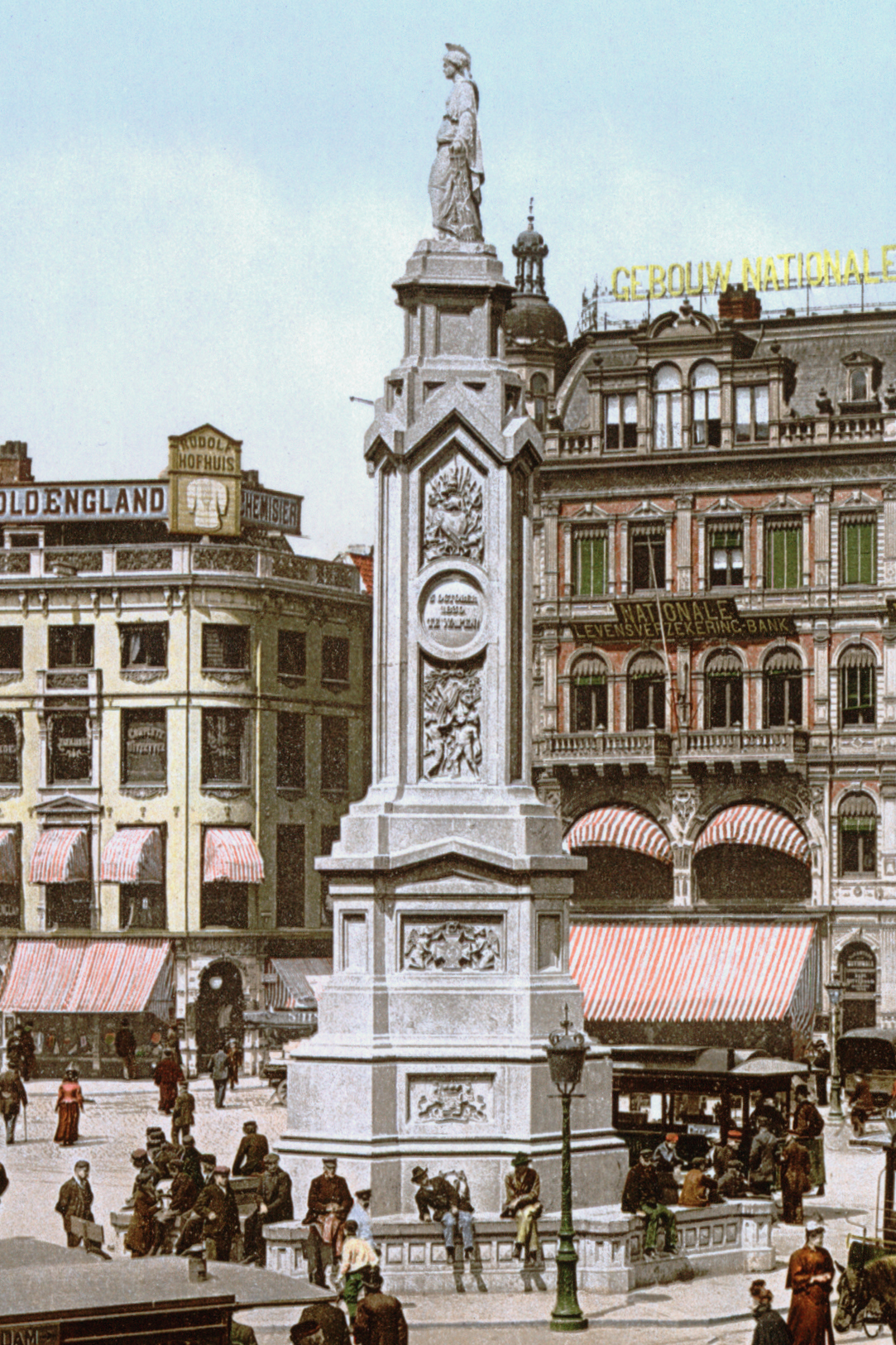 "Naatje": Dam square; 1 photomechanical print : photochrom, color. "The cathedral, Amsterdam, Holland" Includes a monument that no longer stands.